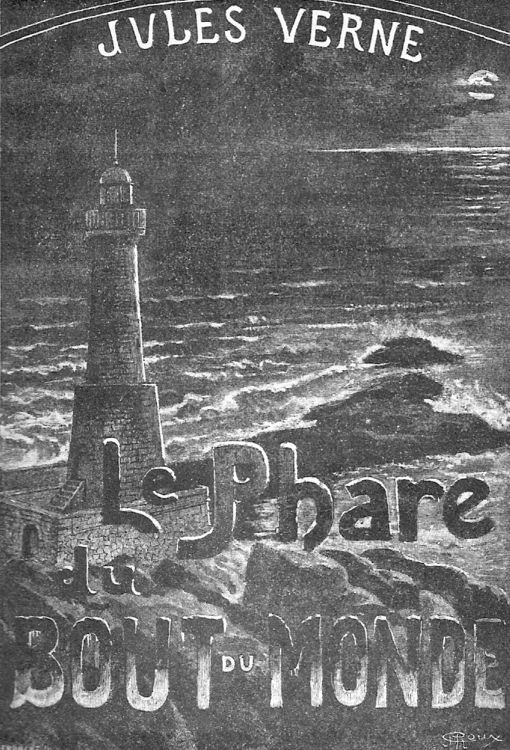 An illustration from Jules Verne's novel "The Lighthouse at the End of the World" (1901) drawn by George Roux.